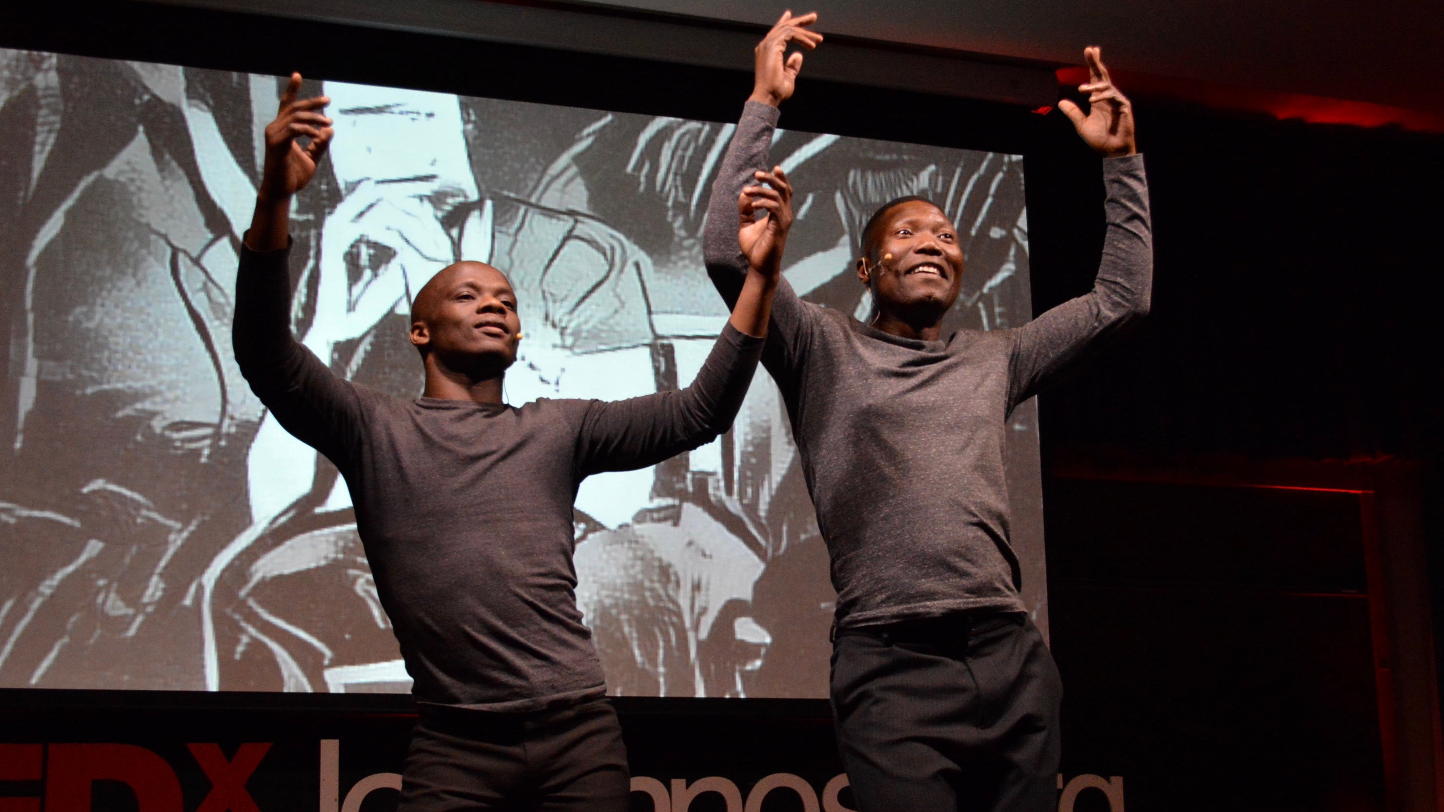 Vuyani Dance Theatre at TEDxJohannesburgSalon 2016. This is an image of "African people at work" from South Africa